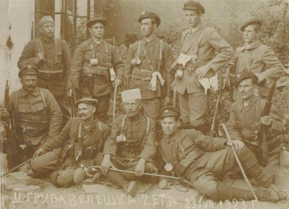 Cheta of IMARO voevoda Stefan Petkov Sirketo